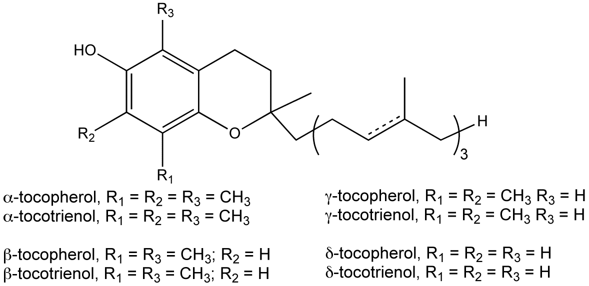 structure of Vitamin E